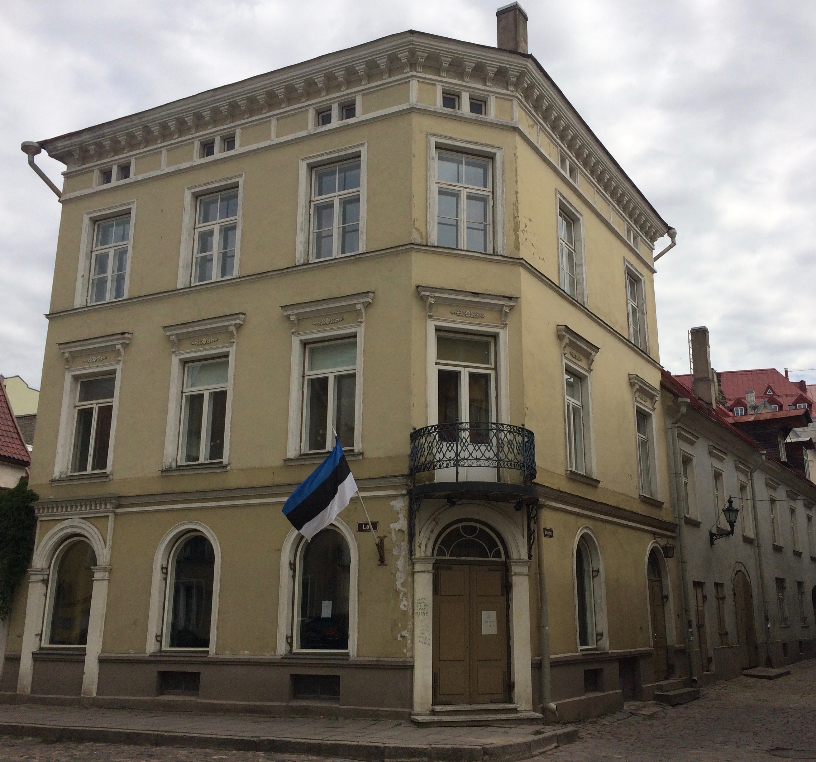 Lai 36 / Vaimu 4, Tallinn